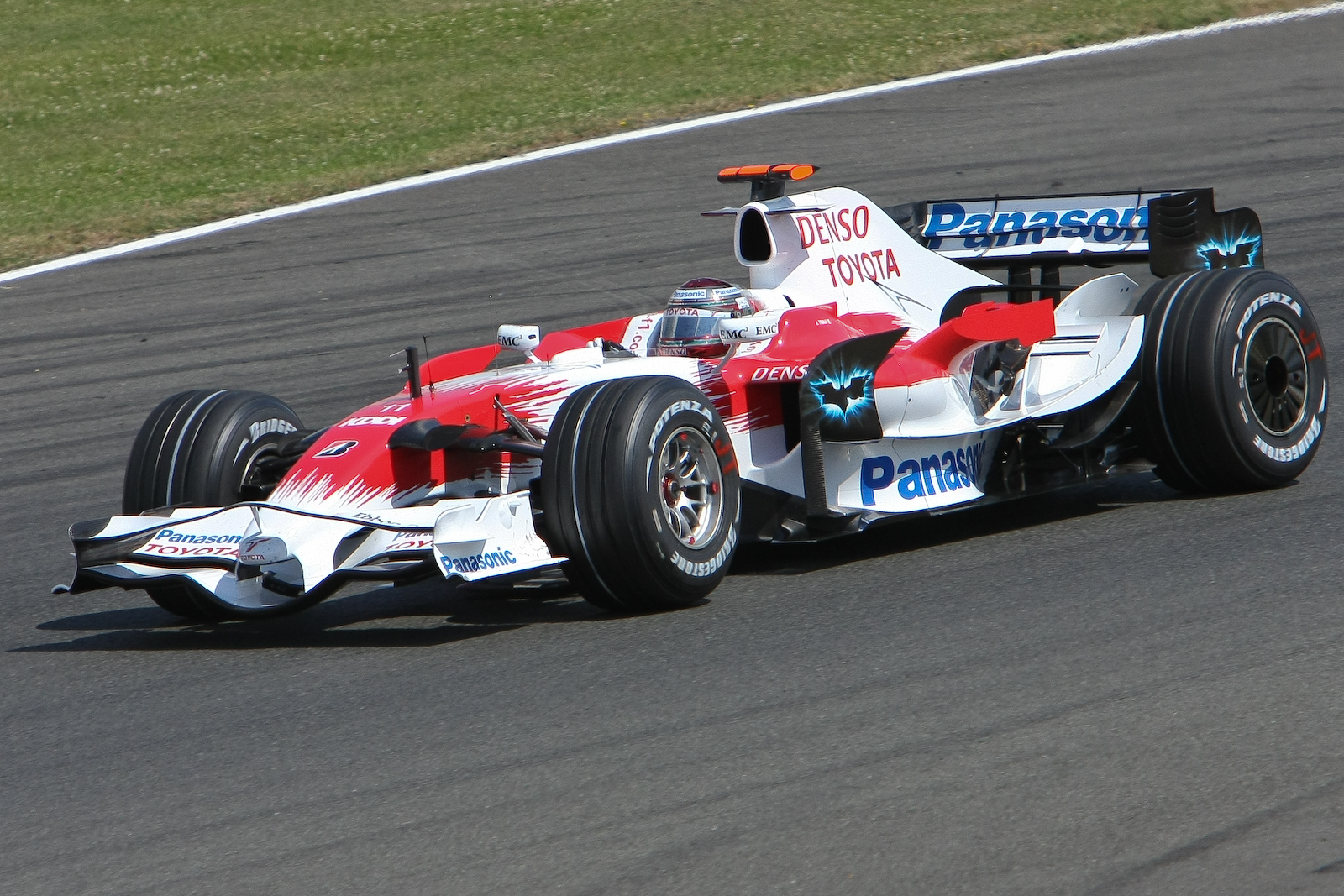 Jarno Trulli driving for Toyota F1 at the 2008 British Grand Prix.